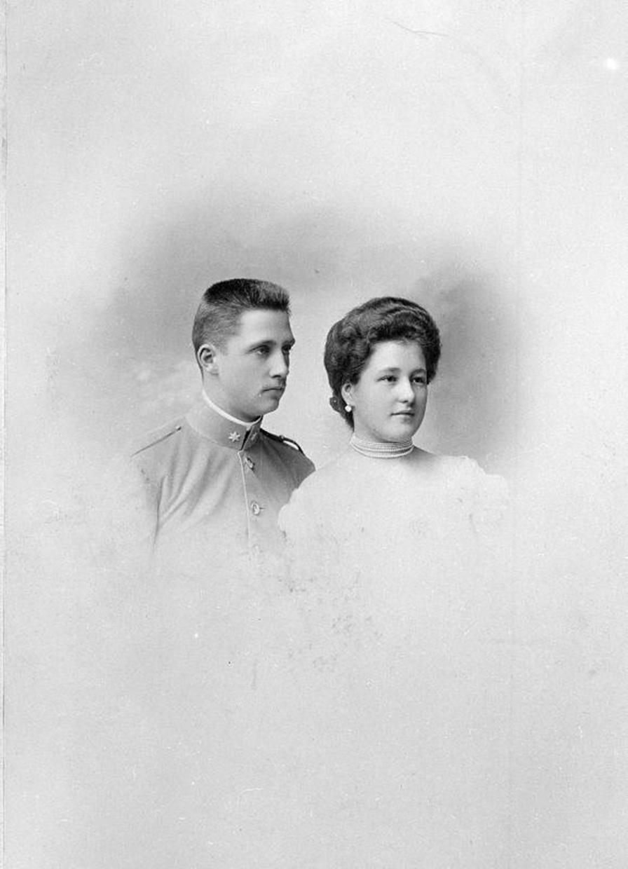 Elias Duke of Parma and his wife Maria Anna of Austria, wedding photo 1903.